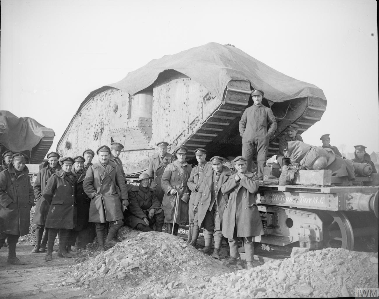 The Battle of Cambrai, November-december 1917 Tank "Hilda" of H Battalion (in which General Biles led the six-mile line of 350 tanks at the Battle of Cambrai) on a railway truck at railhead at Fins, after the battle. 6 December 1917.